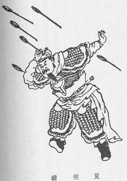 Portrait of the officer Xiahou Ba from a Qing Dynasty edition of The Romance of the Three Kingdoms.